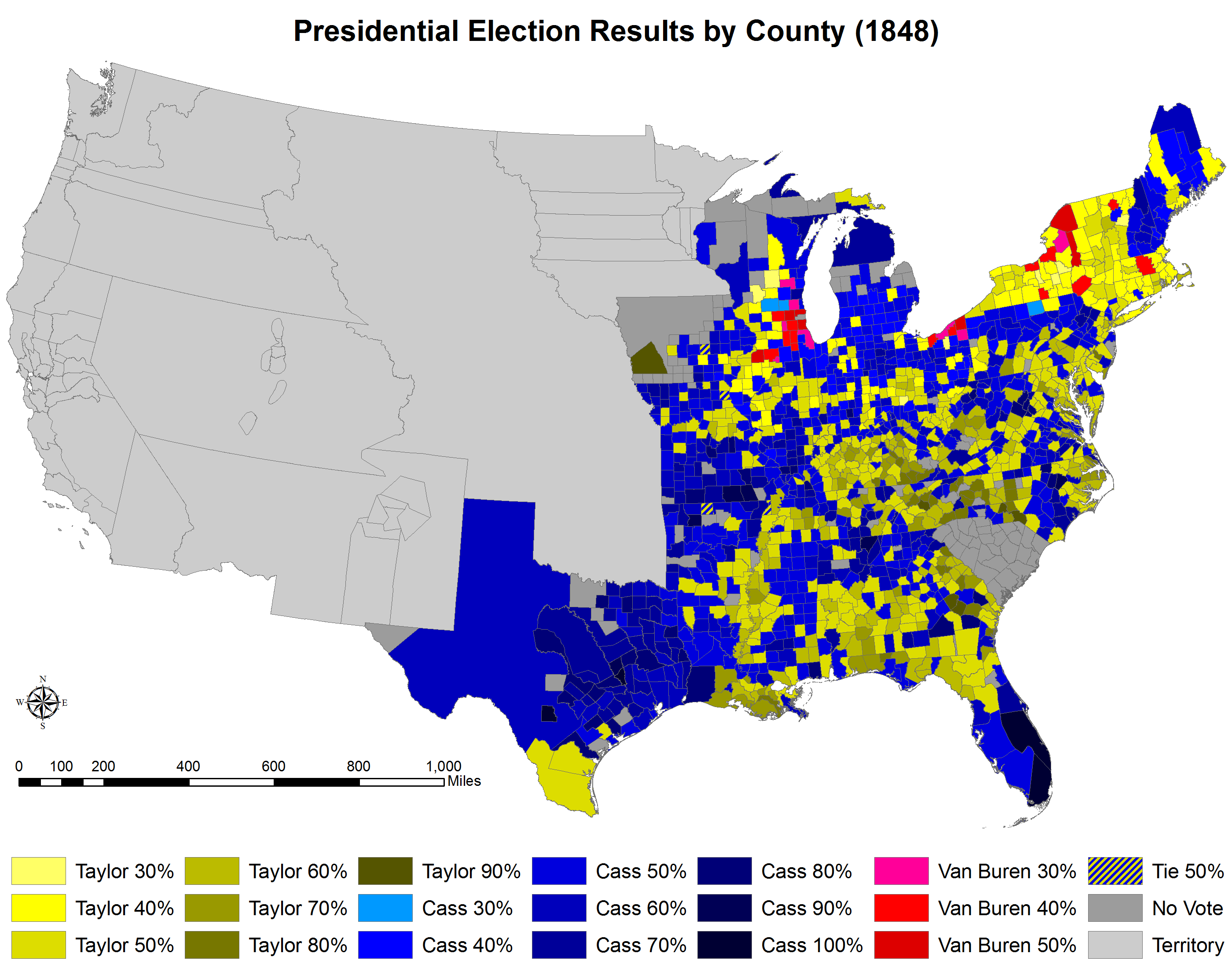 Presidential election results by county (1848).